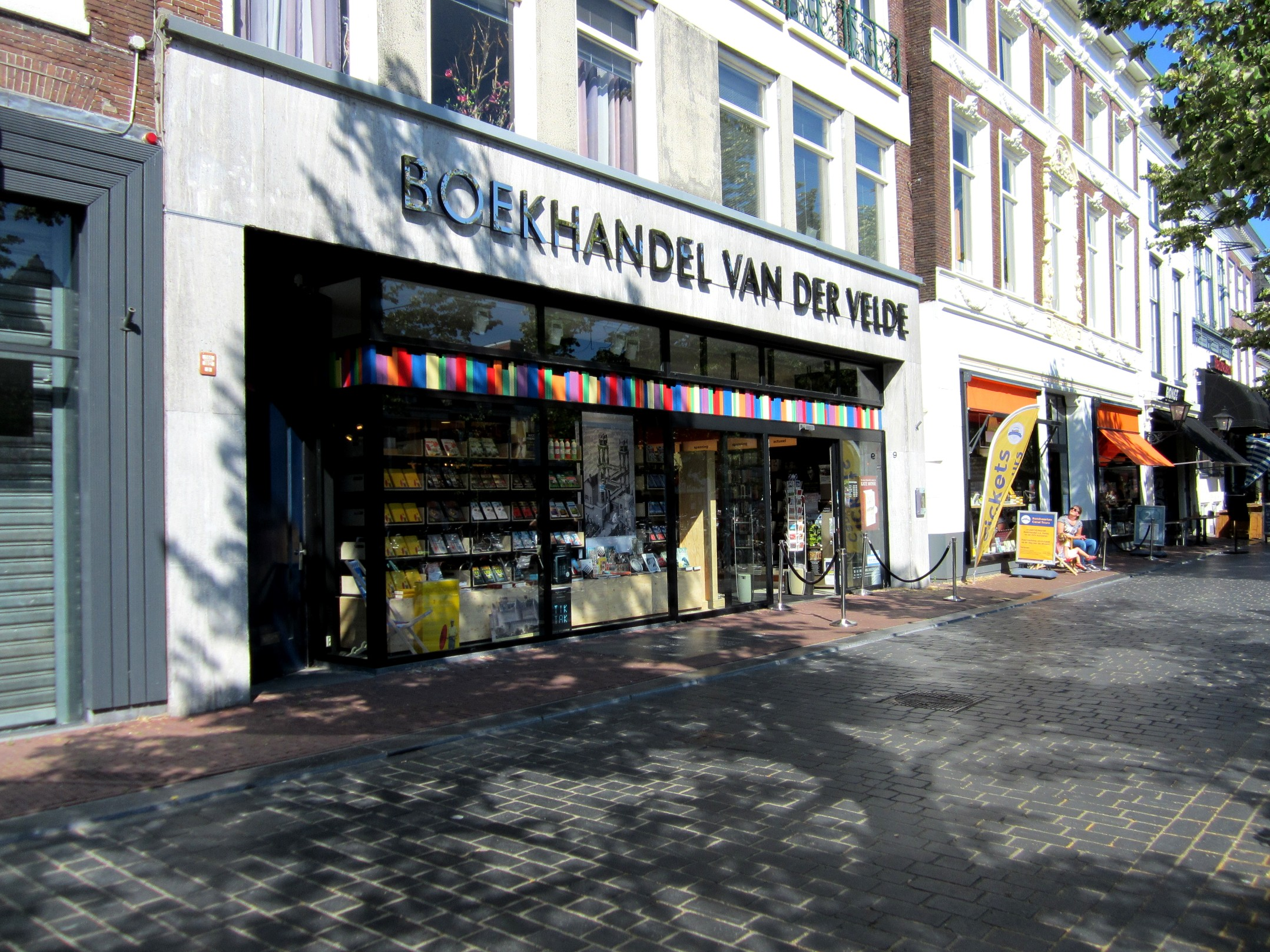 Boekhandel Van der Velde / Boekhannel Van der Velde, a bookstore in Leeuwarden/Ljouwert, Friesland, the Netherlands.